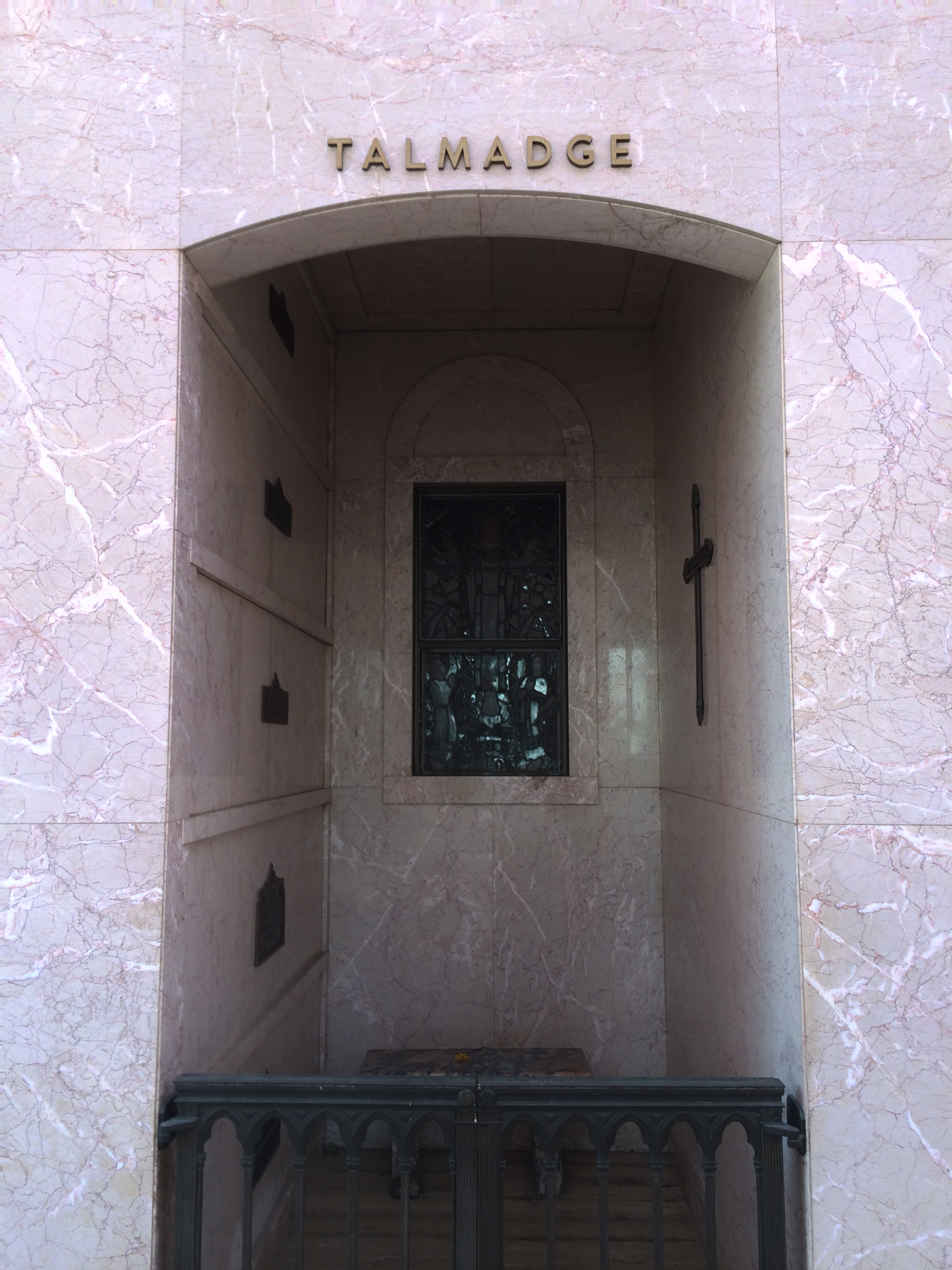 Crypt of Norma, Natalie, and Constance Talmadge at Hollywood Forever.